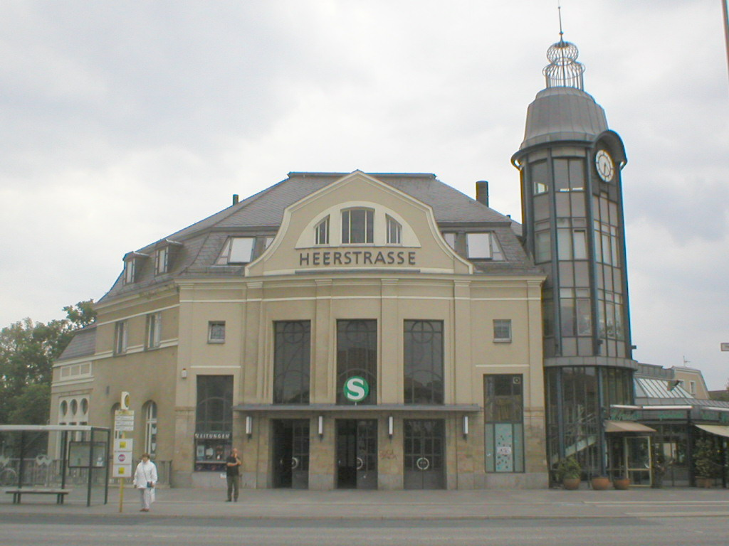 Entrance building of the Berlin S-bahn-station "Heerstraße"